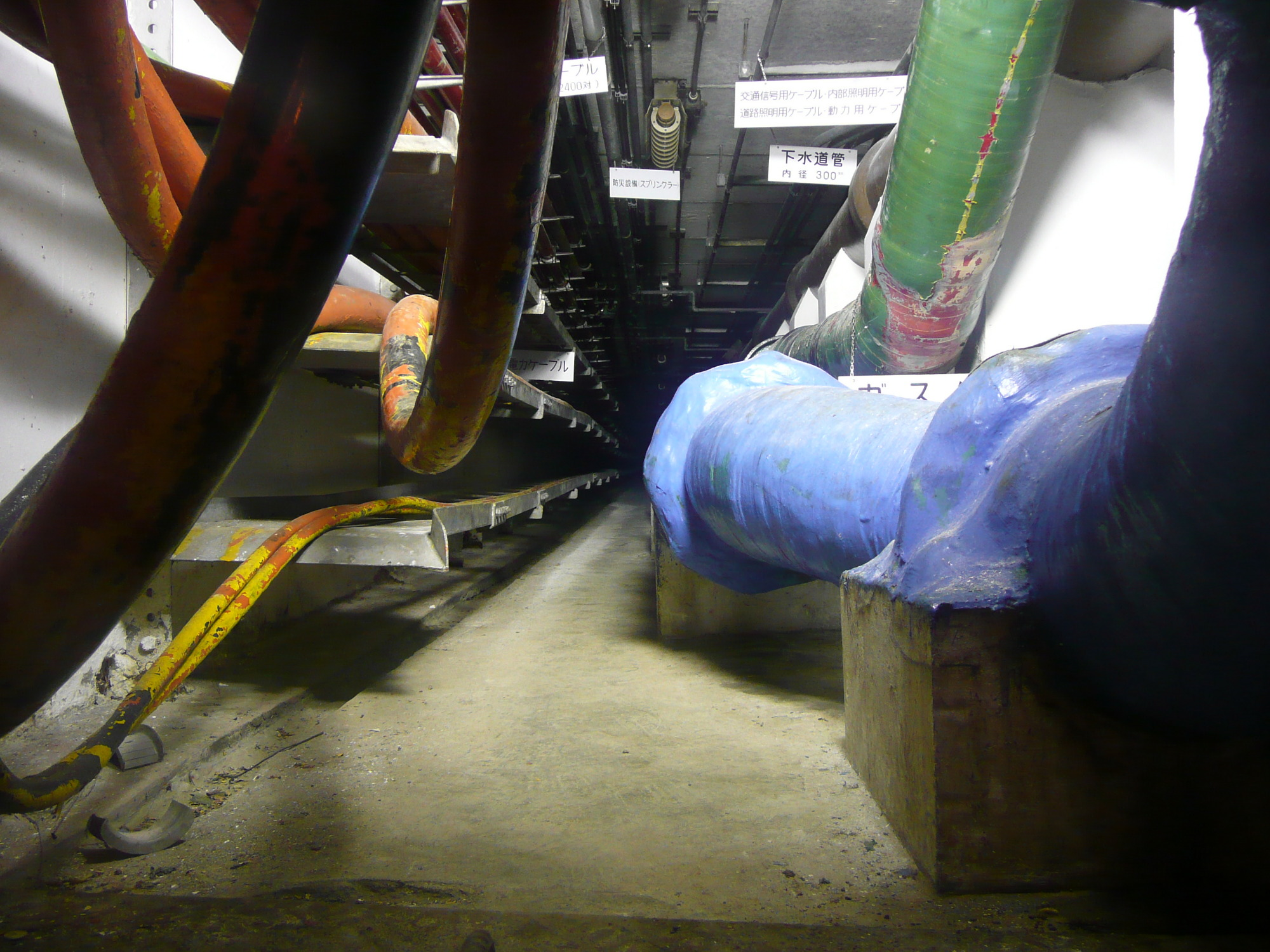 Ginza_common_utility_duct